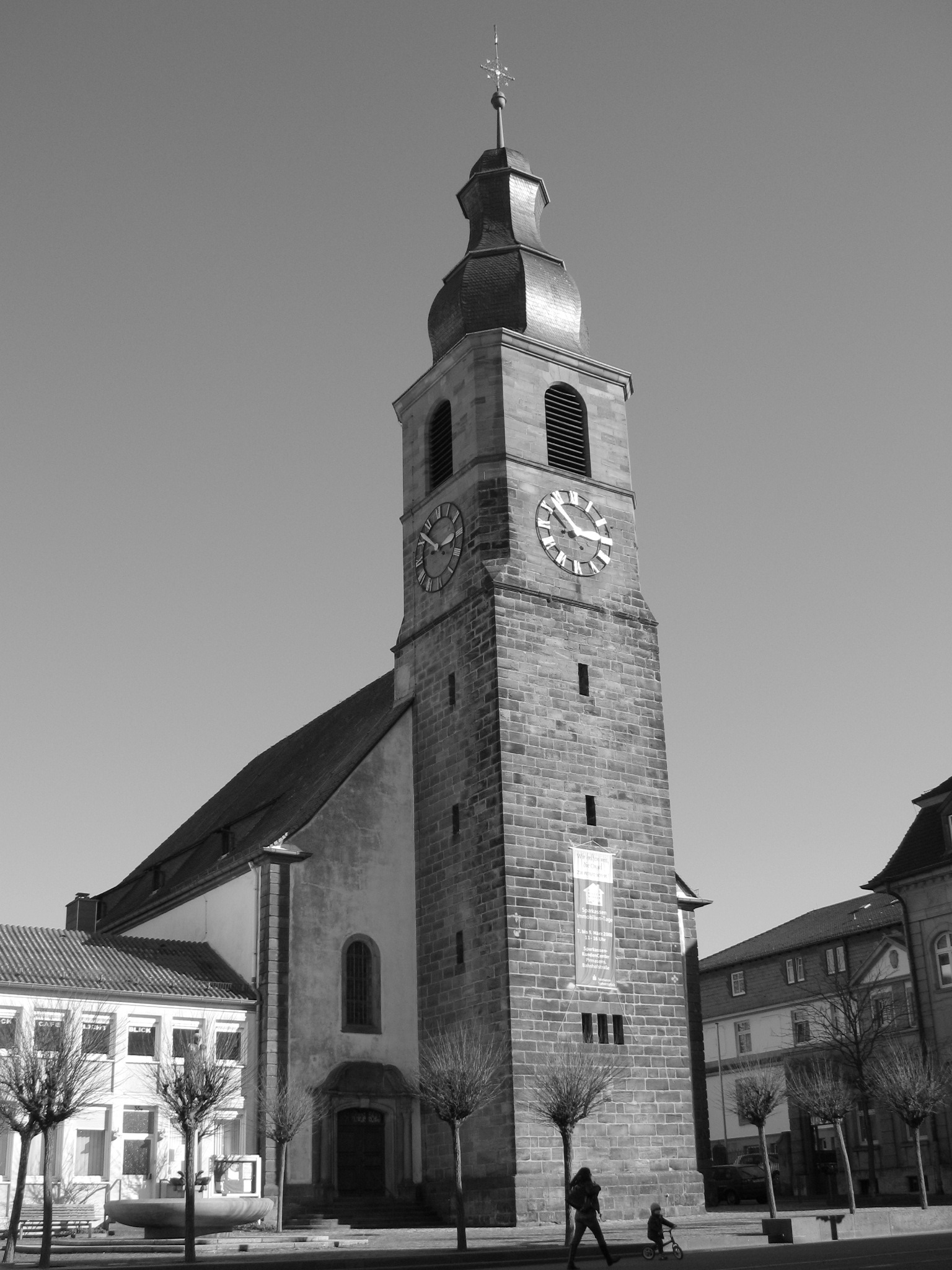 The picture shows Johanneskirche in Pirmasens, Germany. It is a clear, sunny day in February 2008.